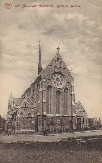 Eglise Saint-Antoine (Etterbeek) 1909